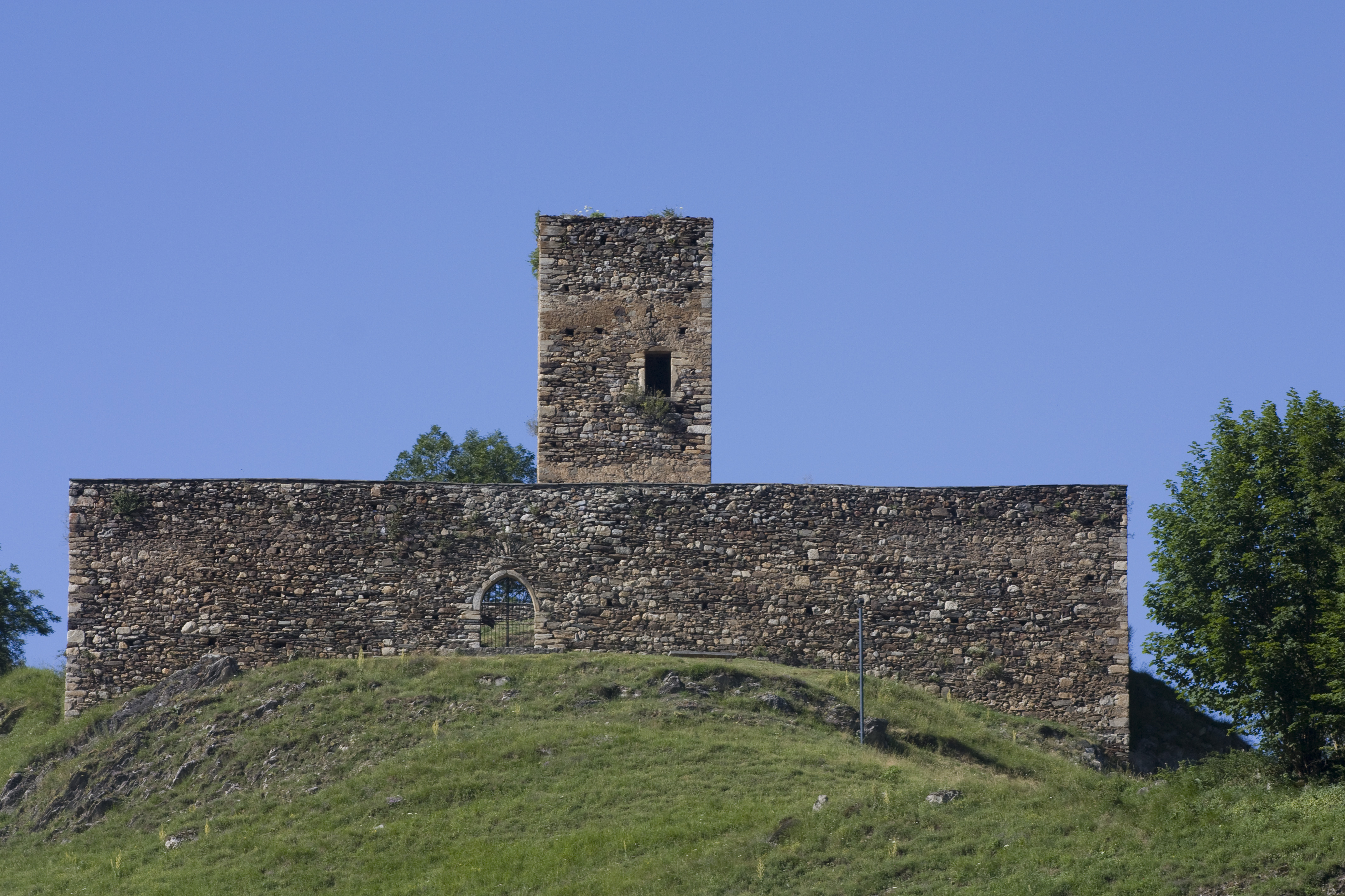 The castle Génos (third quarter of the 13th century) is typical of the castles of the early Middle Ages with a square tower pierced with a single door, accessible only by ladder. However the ground floor has a vaulted room. The wall had a simple walkway on profiles. Its good preservation is due to a law, made very early, to prohibit its use as a career.